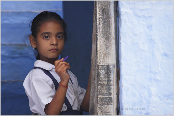 little girl lost in thoughts, in the blue street of jodhpur children of india girls in india